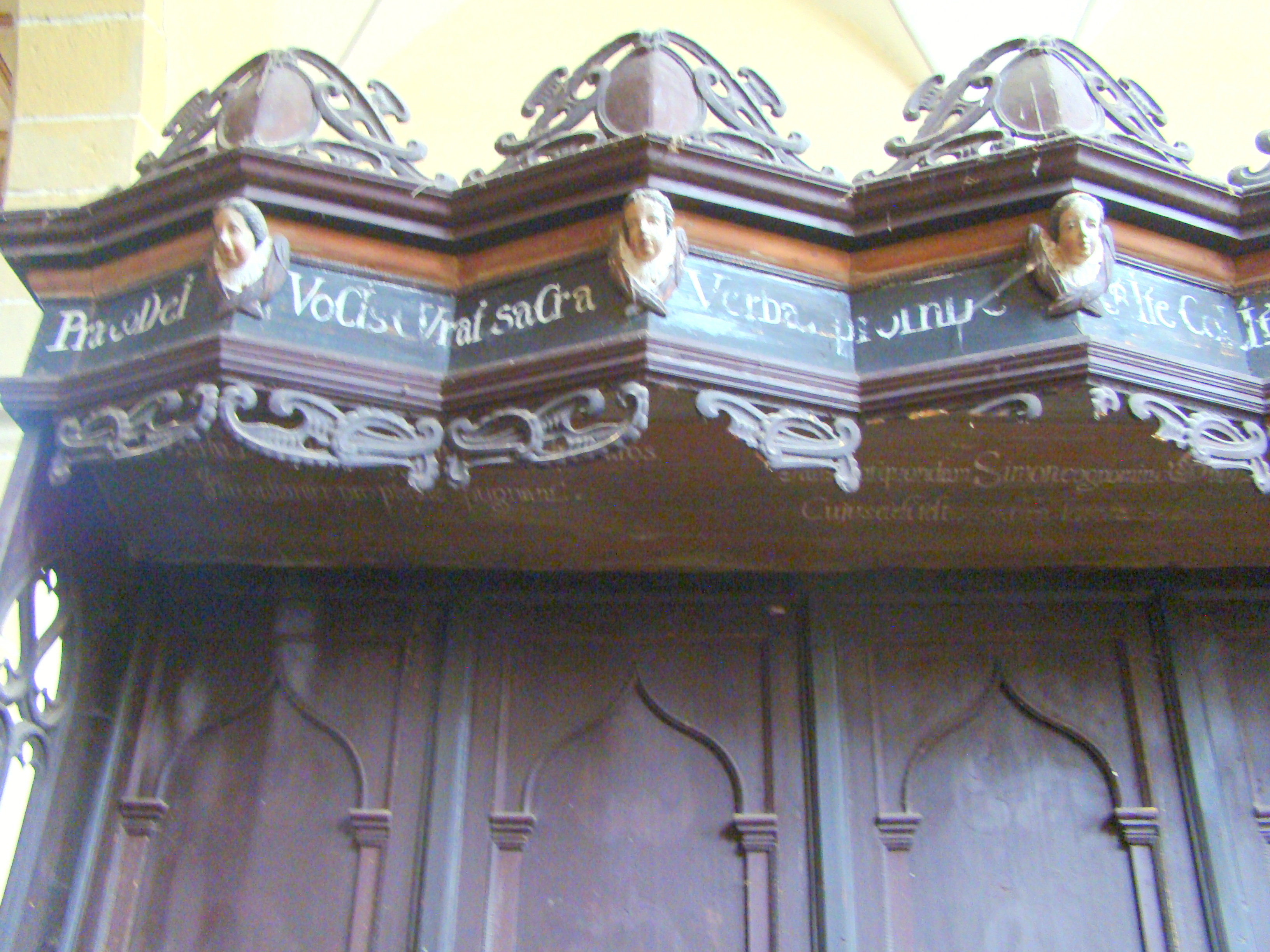 Lutheran church in Rupea, Braşov County, Romania